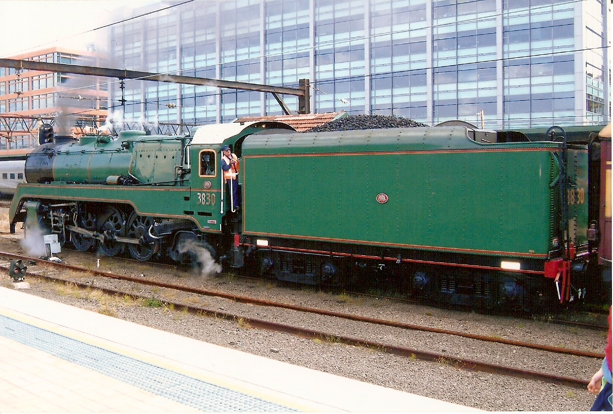 3830 during the 150th Anniversary Of NSW Railways 2005